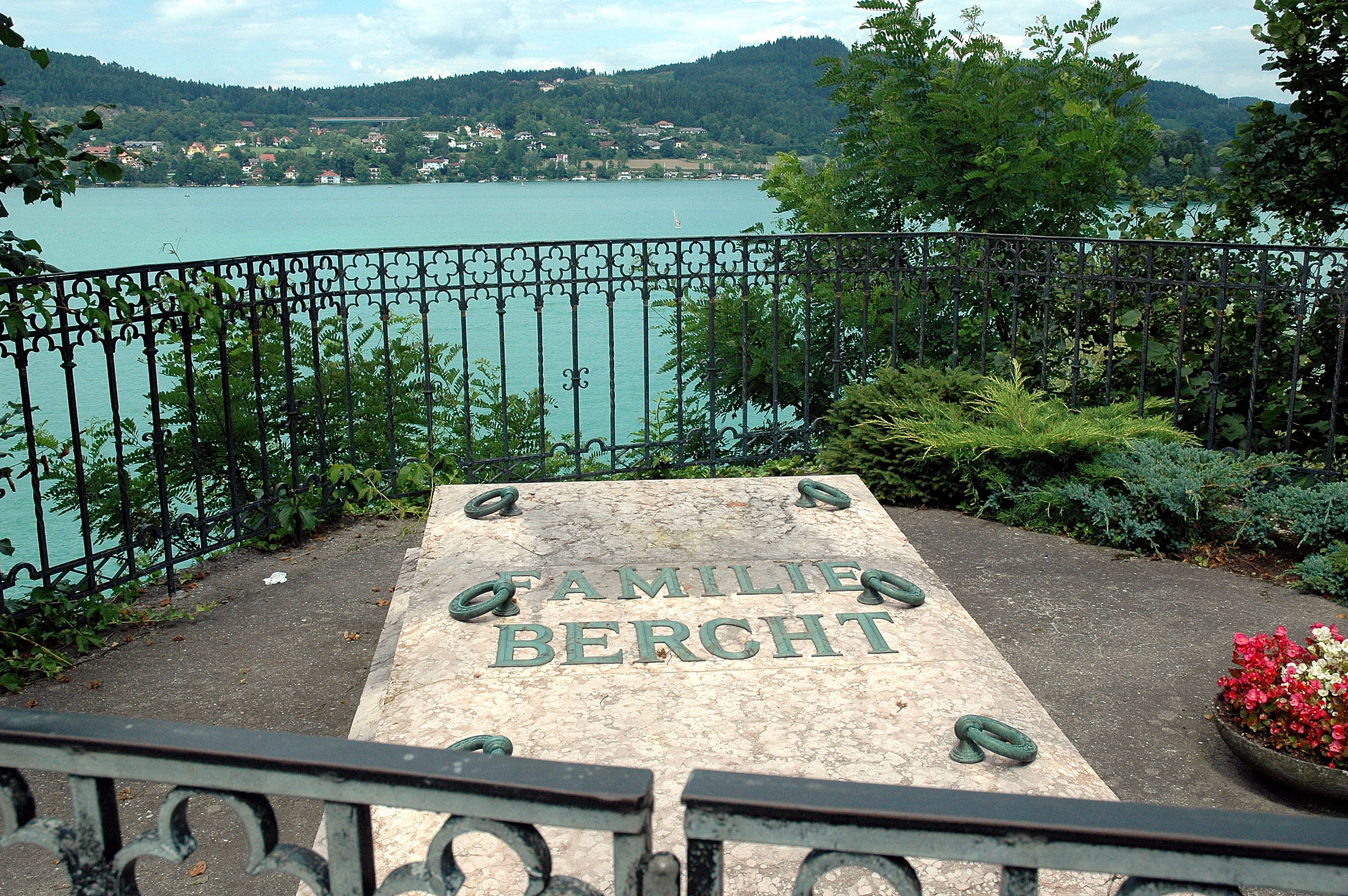 Family vault on the cemetery of Maria Woerth, Carinthia, Austria